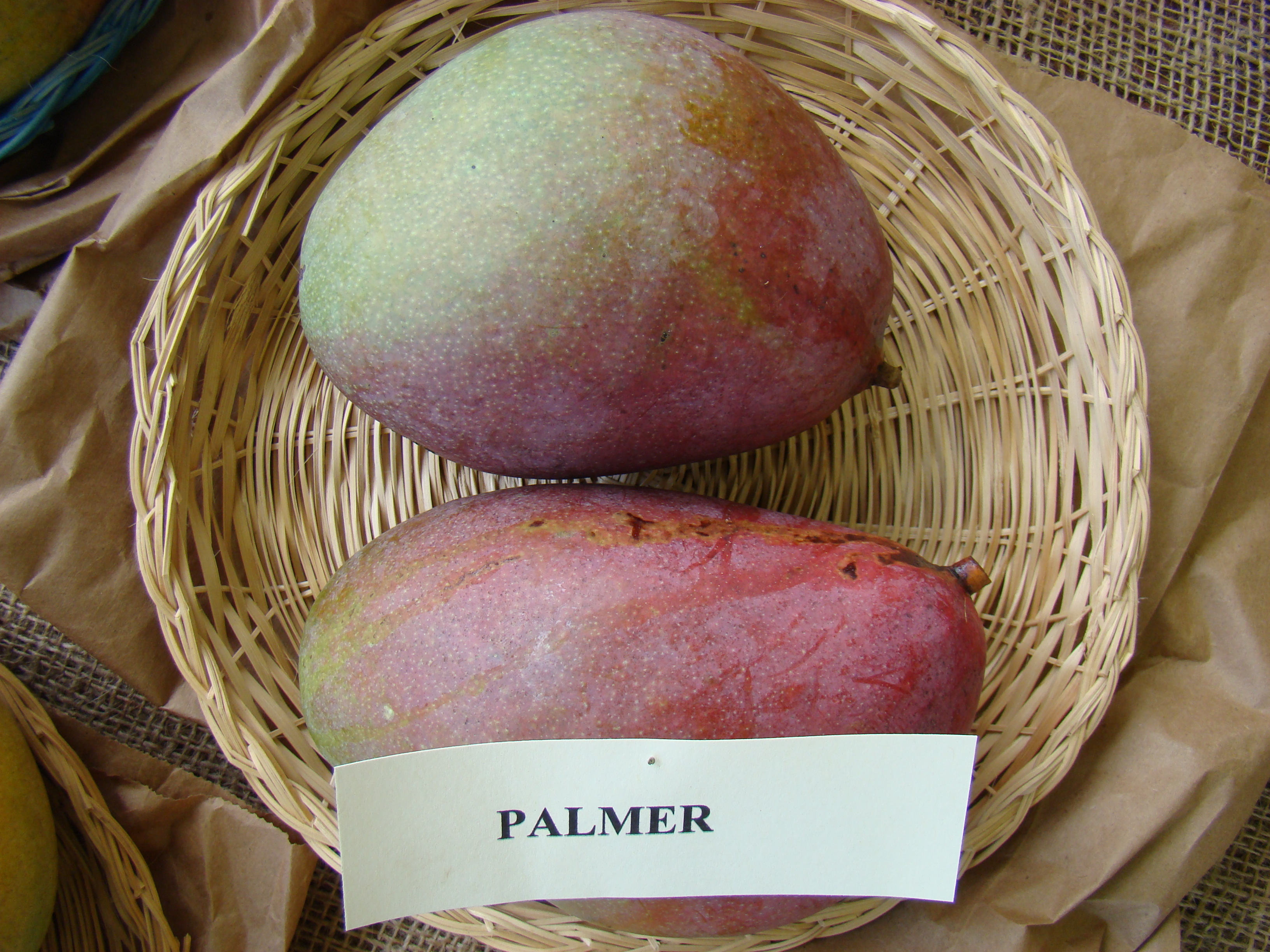 This is a photo of the display of Palmer mango at the Redland Summer Fruit Festival, Fruit & Spice Park, Homestead, Florida.